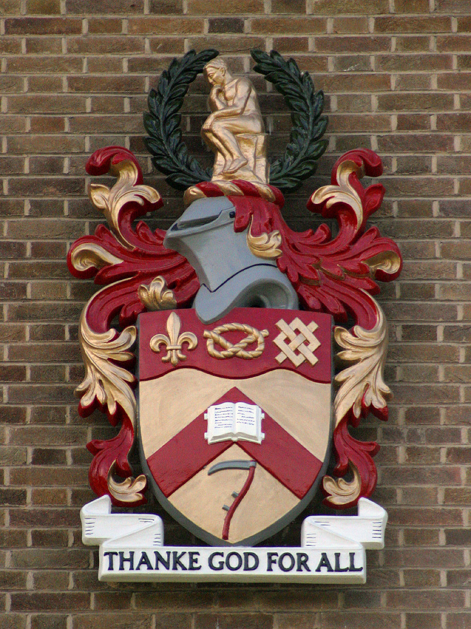 Arms of the University of Keele, as displayed on the front of the Library, on the University campus, Staffordshire, UK. (960x1280 px, 1,115,080 bytes)